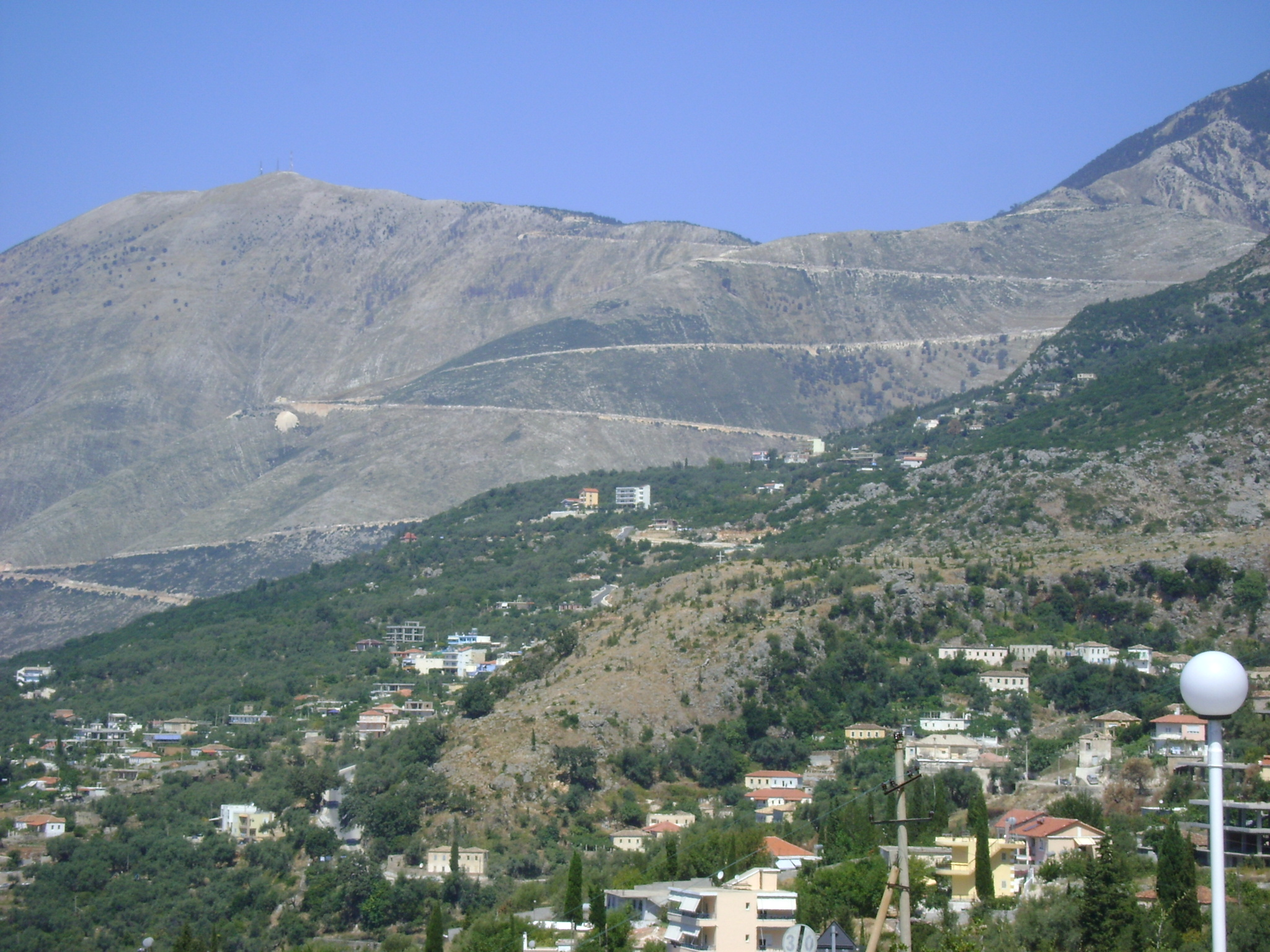 Llogara Pass in Southern Albania as seen from the village of Dhërmi